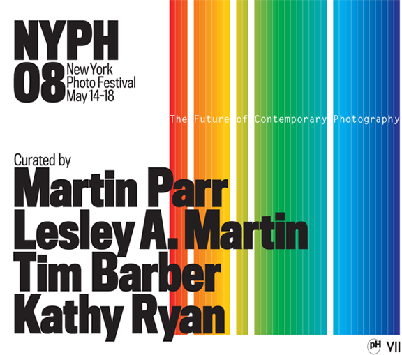 Banner artwork from New York Photo Festival 2009 website. Owned by New York Photo Festival LLC